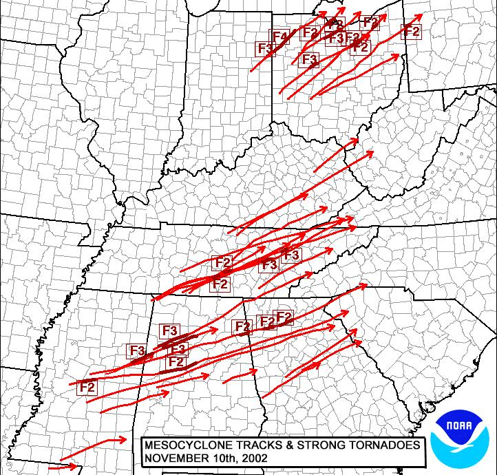 Tornado track map from the November 10, 2002 Veterans Day weekend outbreak.